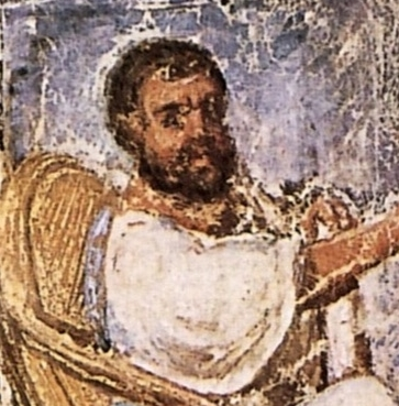 One two author portraits from the Vienna Dioscurides (detail)